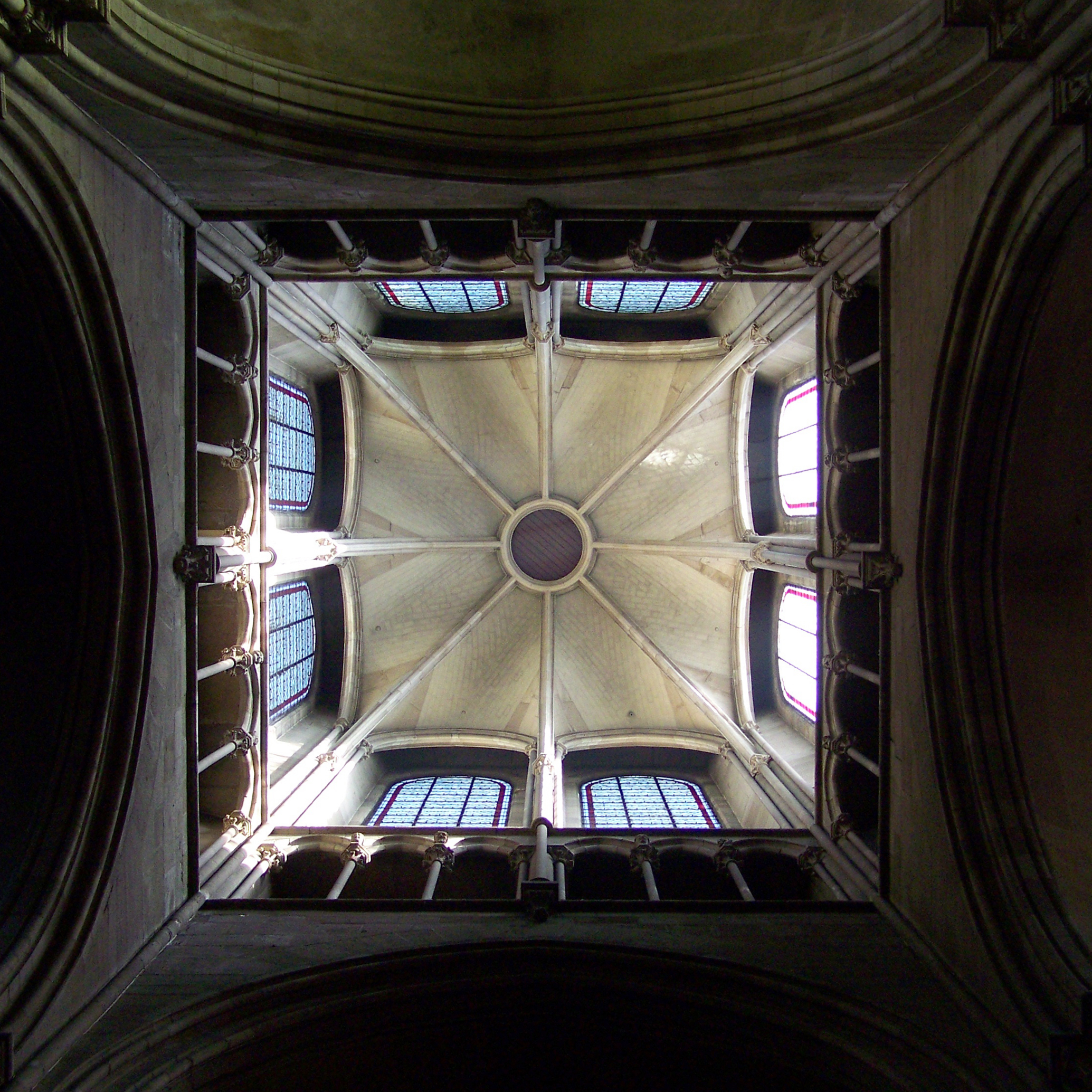 View up the crossing tower of the church of Notre-Dame in Dijon